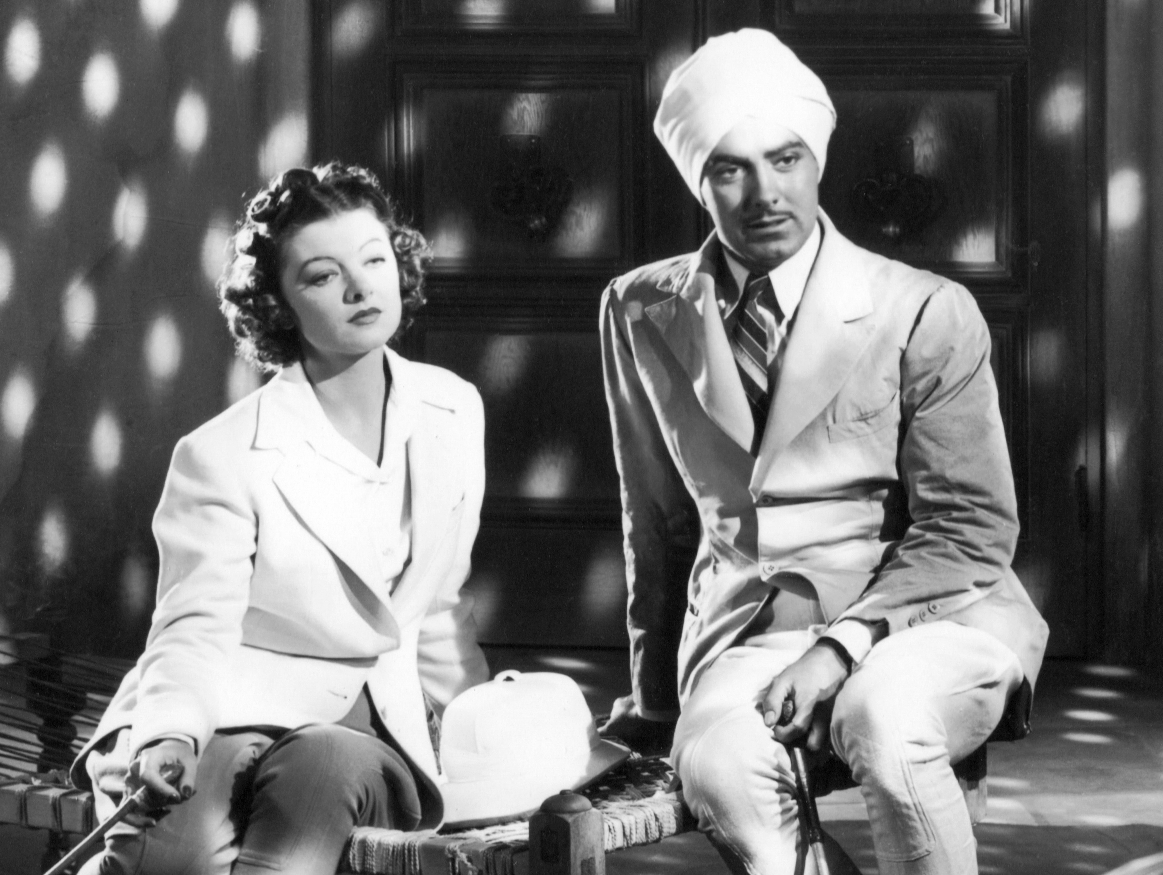 Photograph of Myrna Loy and Tyrone Power in The Rains Came